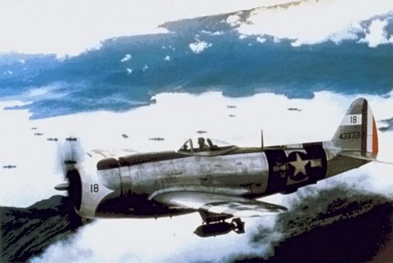 A Fuerza Aérea Expedicionaria Mexicana (FAEM — "Mexican Expeditionary Air Force") Republic P-47D-30-RA Thunderbolt (USAAF s/n 44-33721) from Escuadrón 201 (201st Squadron) over the Philippines during the summer of 1945. The squadron was attached to the 58th Fighter Group of the United States Army Air Forces during the liberation of the main Philippine island of Luzon, flying 785 sorties in 96 combat missions.